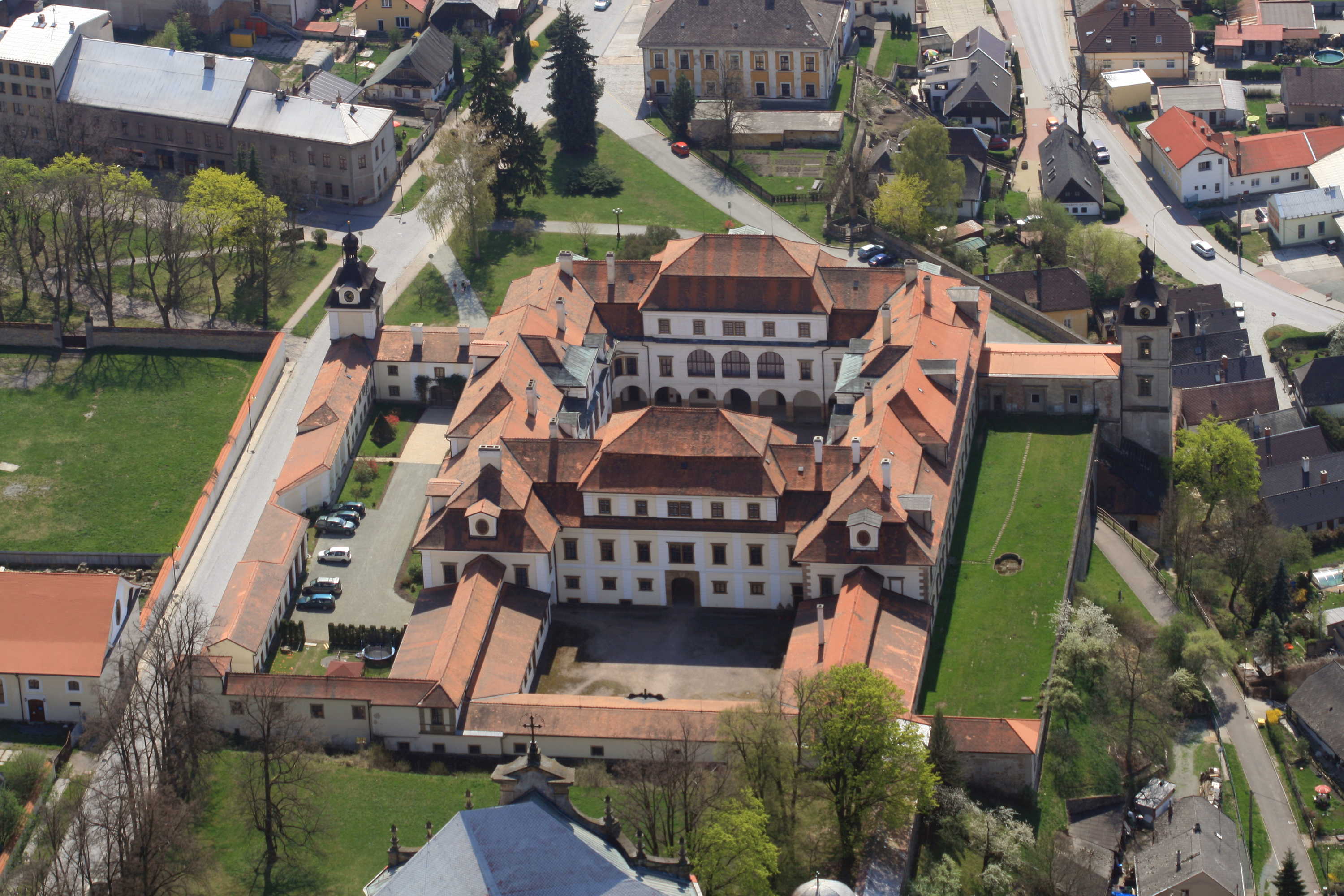 Castle in town Rychnov nad Kněžnou from air, eastern Bohemia, Czech Republic